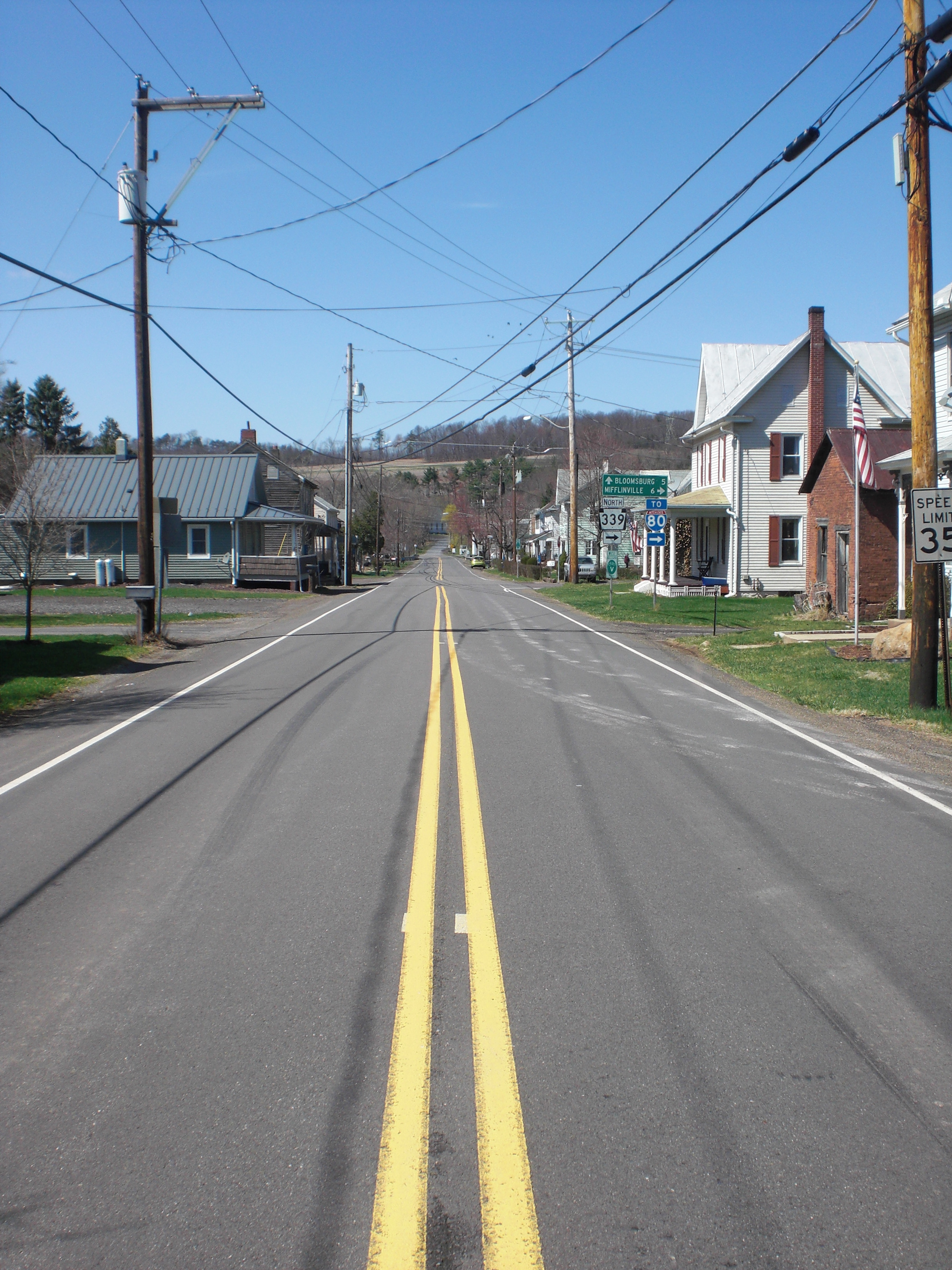 Mainville Drive looking north in Mainville